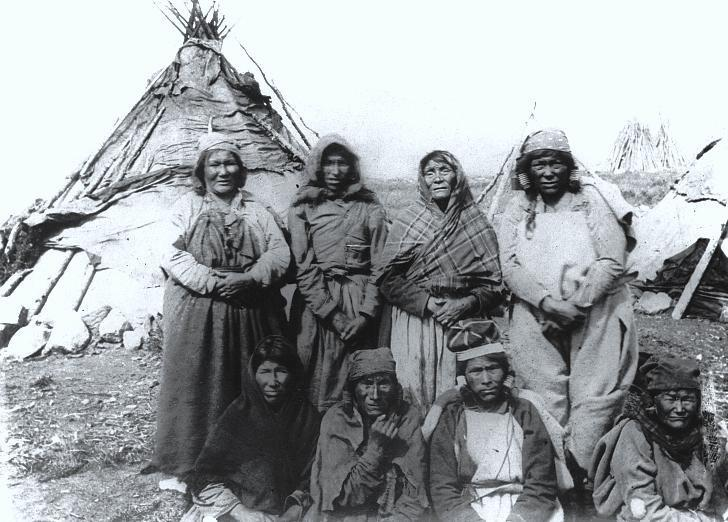 Photograph, Indian women, Fort Chimo, QC, about 1900, J. R. H., Silver salts on paper mounted on card - Gelatin silver process - 14 x 20 cm